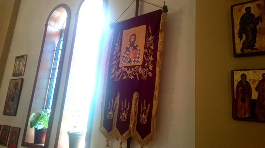 A khorugv with an icon of Saint Sava in the Saint Sava Serbian Orthodox Church in Toronto.